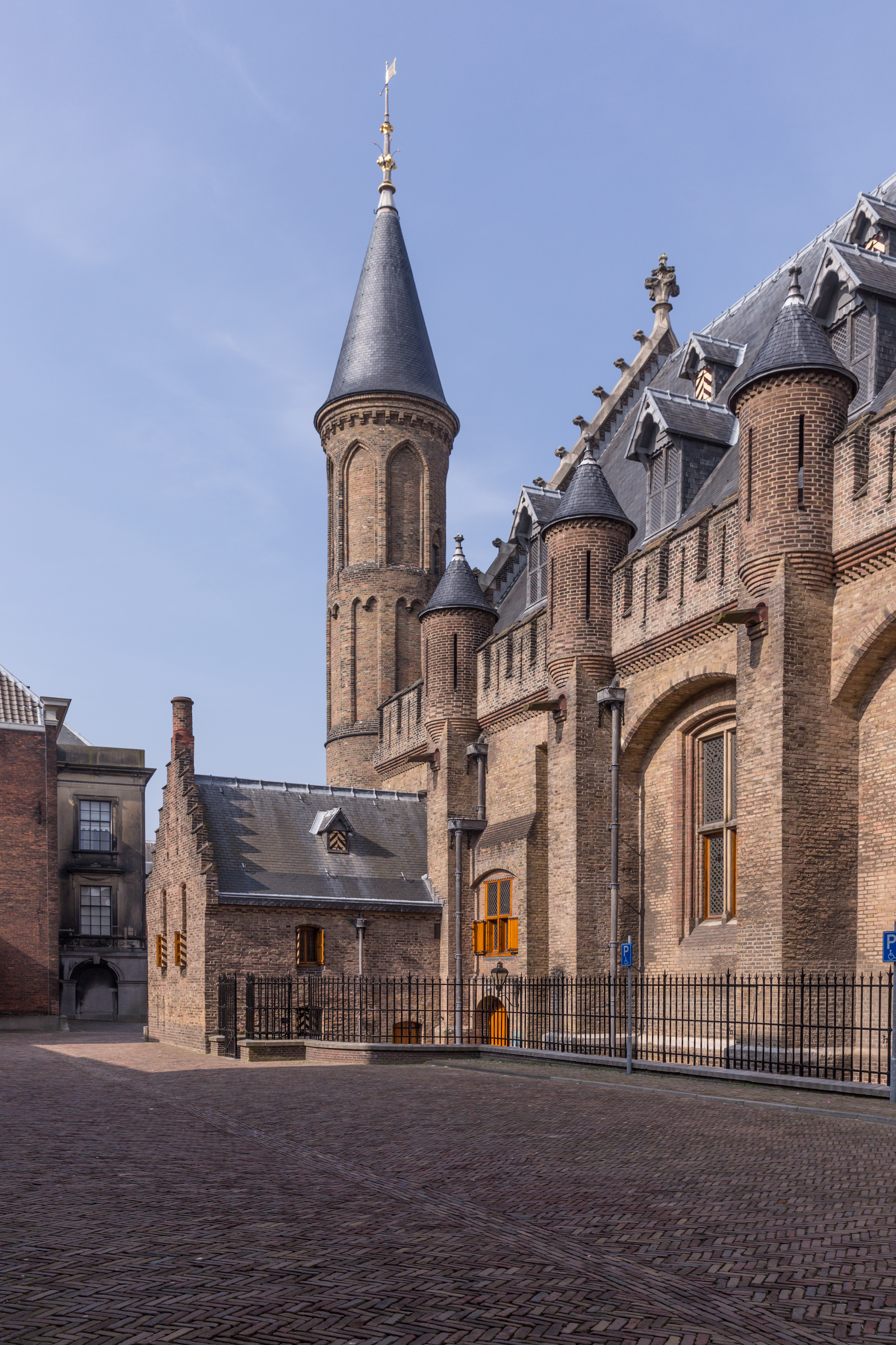 Binnenhof, The Hague